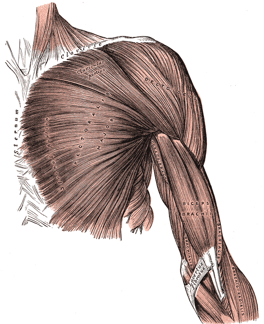 superficial front muscles of arm